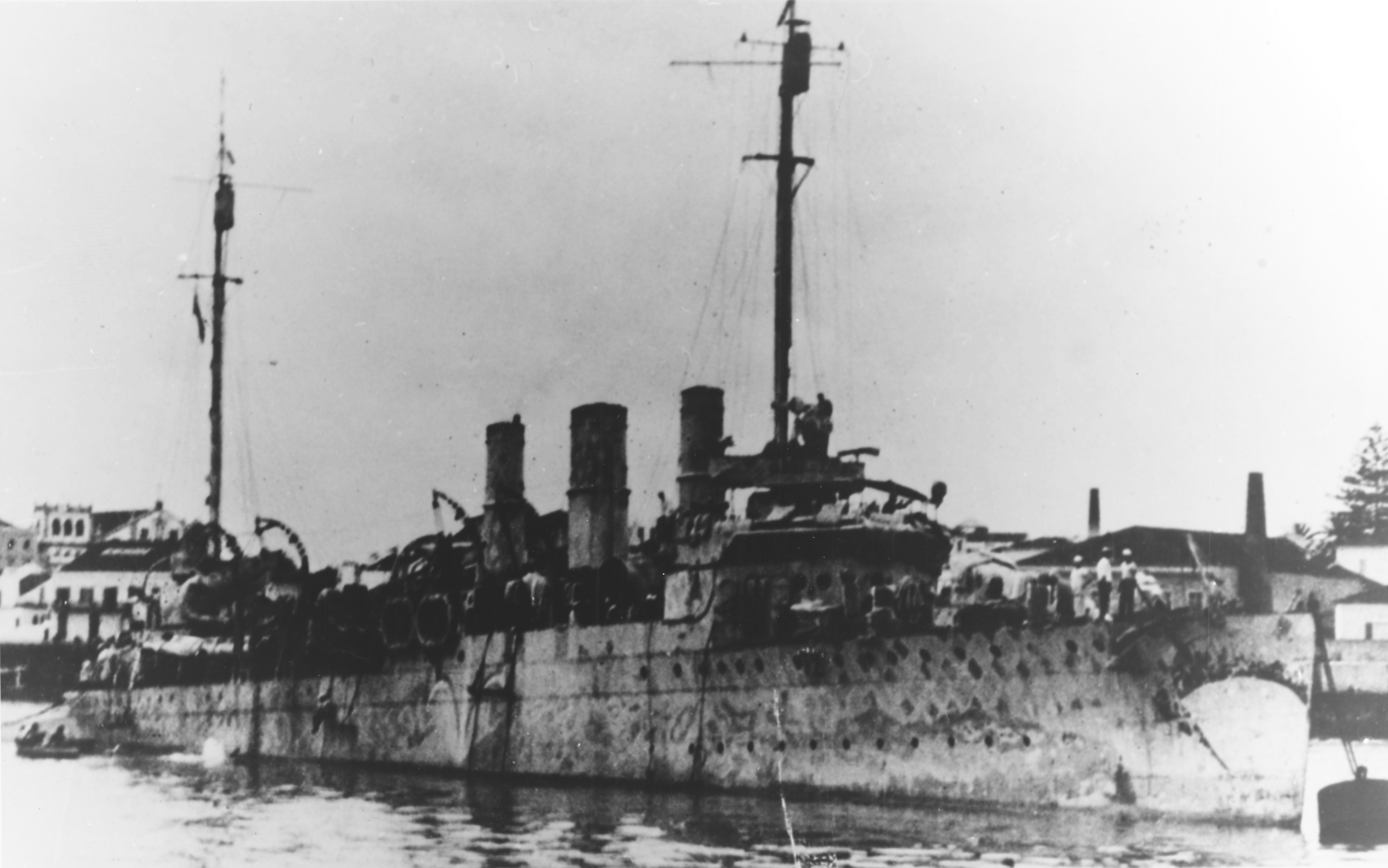 The U.S. Navy destroyre USS Conner (DD-72) in a European harbour, circa 1918. She is painted in what appears to be a Mackay low visibility camouflage scheme.